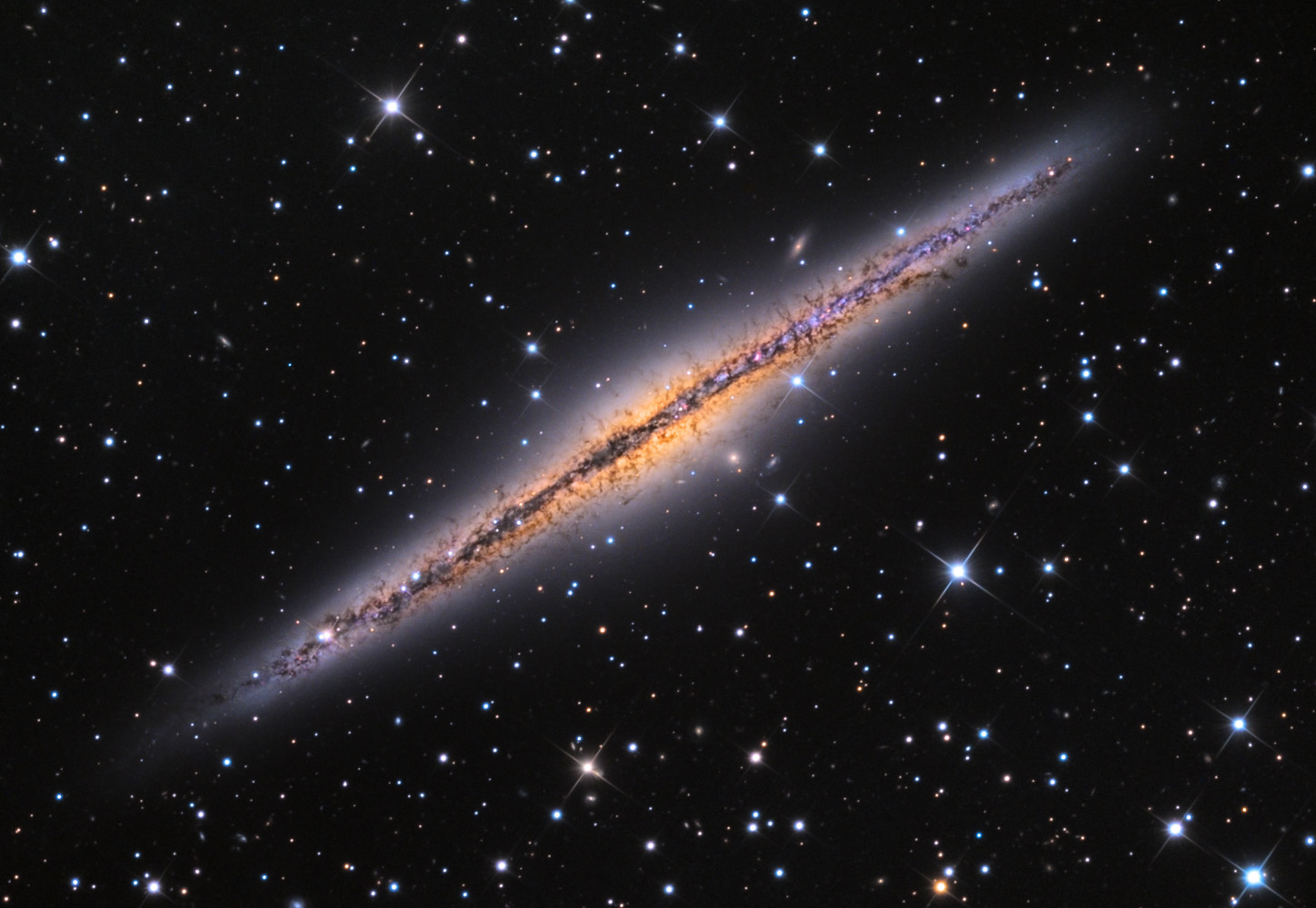 Deep exposures of Galaxies using the 0.8m Schulman Telescope at the Mount Lemmon SkyCenter Credit Line & Copyright Adam Block/Mount Lemmon SkyCenter/University of Arizona